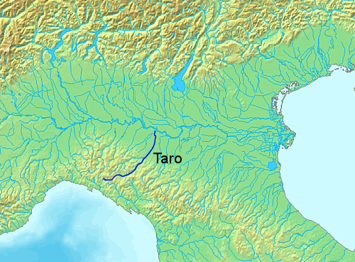 Location of Taro river - Italy